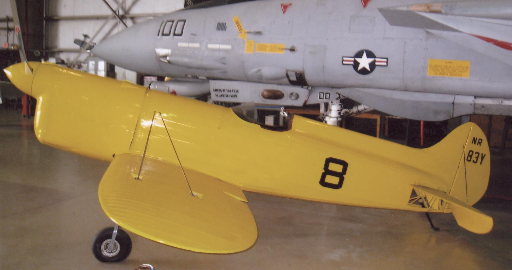 Brown B-1 (NR83Y), racing aircraft of 1933, displayed at the Wings over Miami aviation museum at Tamiami, Florida